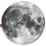 Location of the Riccioli crater on the Moon. The marker also shows the proximity of the Grimaldi, Schlüter, Lohrmann, and Damoiseau craters.